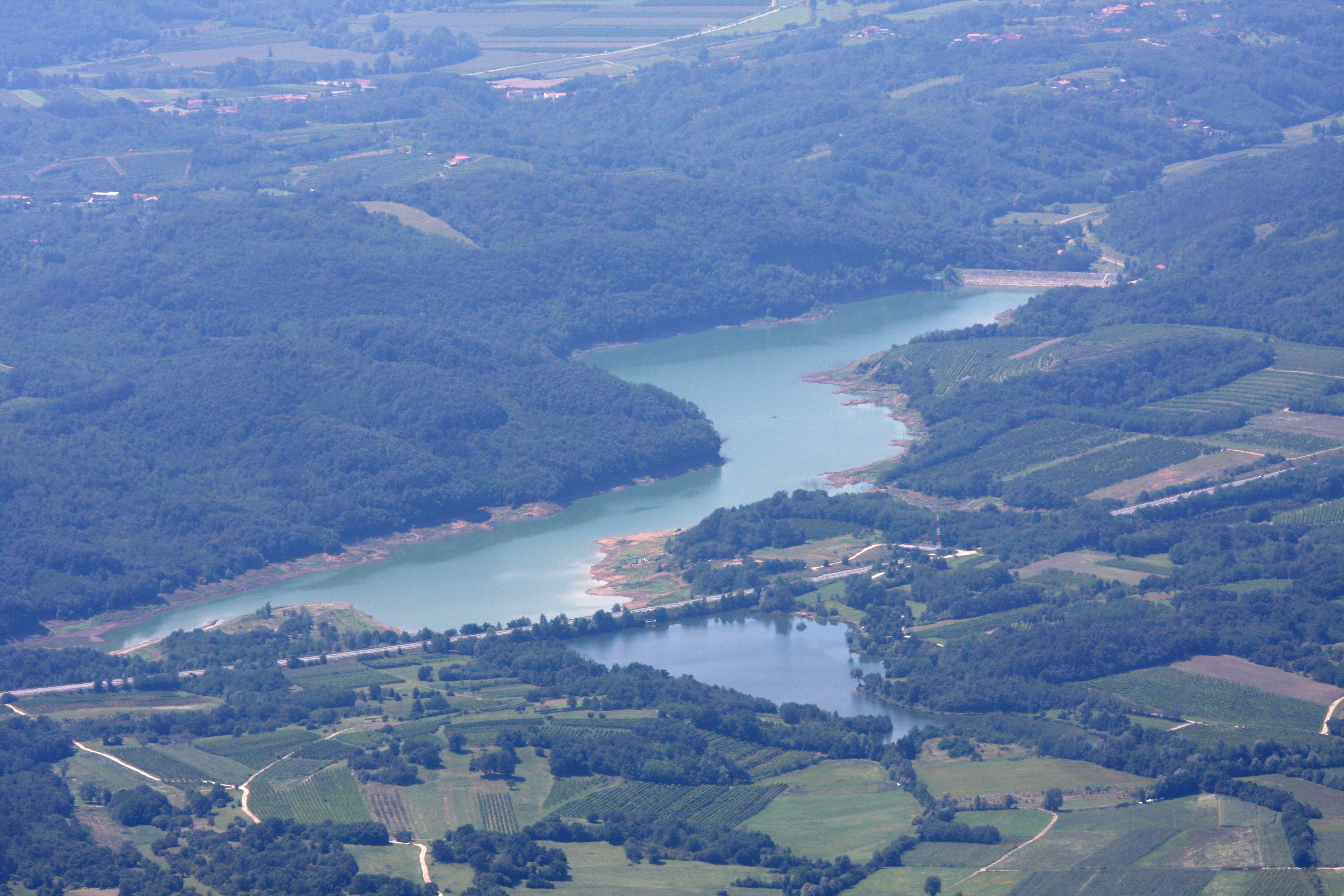 Vogršček lake, Slovenia; photo taken from the Kucelj peak (Čaven range). The road crossing it is the H4 Expressway.